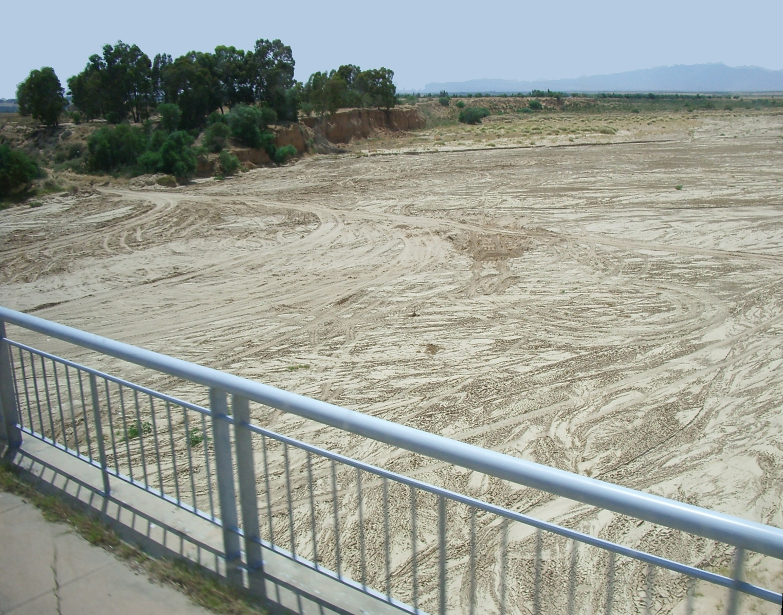 Oued El Hathoub